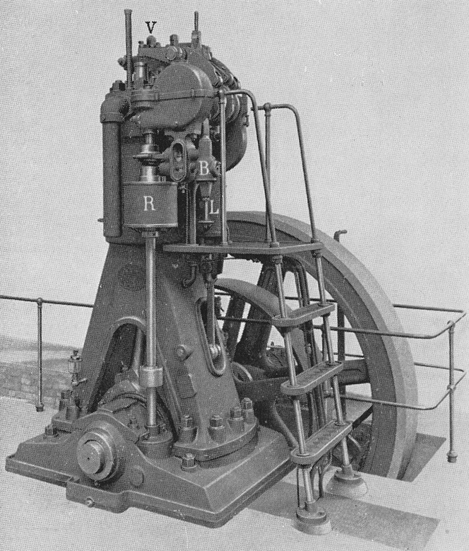 Erster Dieselmotor 1898